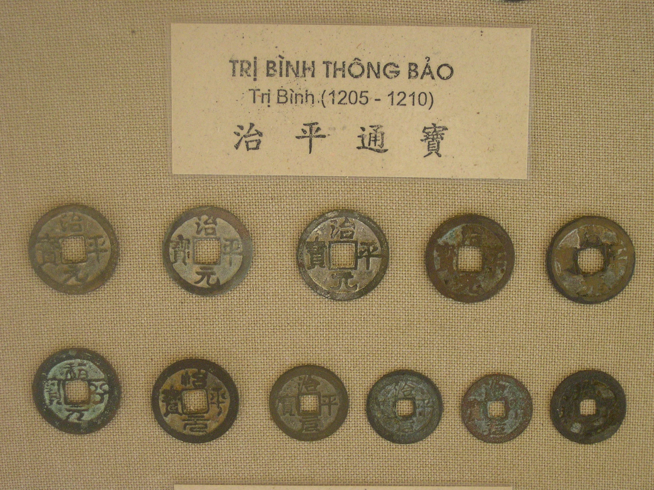 Antique coins at the Hanoi Museum, Vietnam